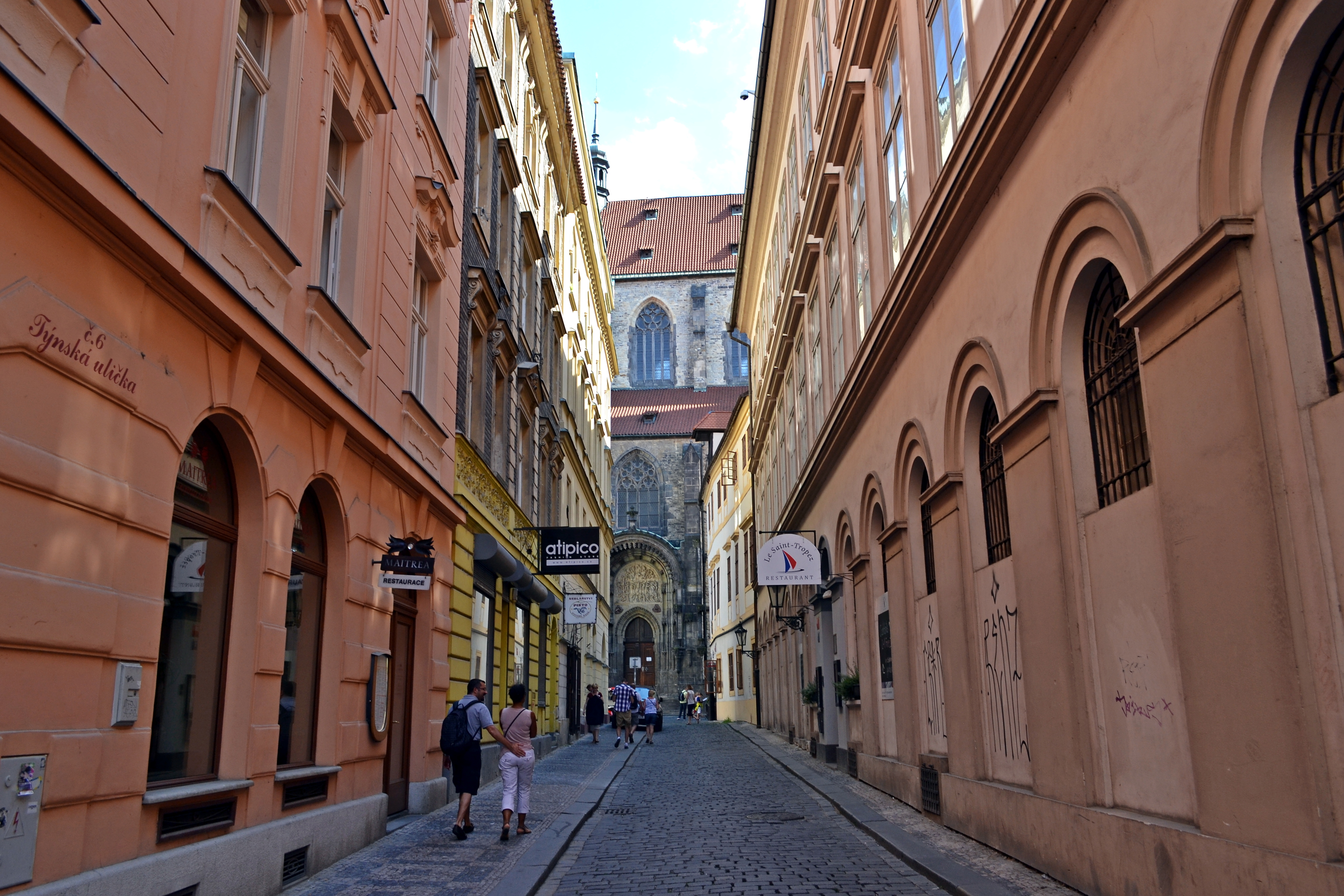 Týnská ulička street in Prague, Czech Republic. View towards the Týnská street. In the background is the Church of Our Lady in front of Týn.